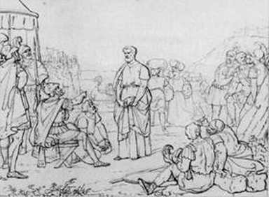 Dionisio II si consegna a Timoleonte